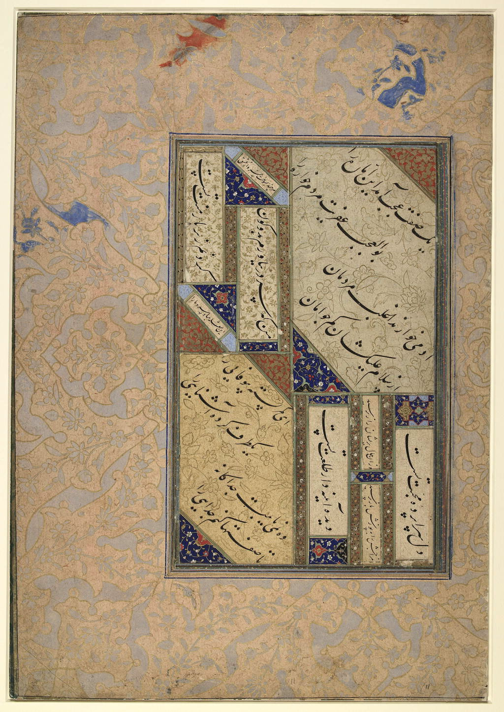 This calligraphic fragment includes three iambic pentameter quatrains, or ruba'is, arranged in corresponding vertical and horizontal panels. Script: Nasta'liq.